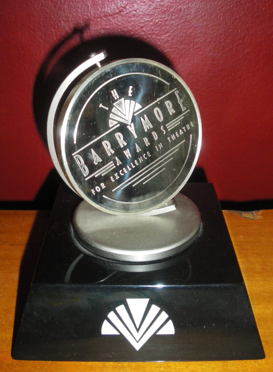 A 2005 Barrymore Awards for Excellence in Theater.